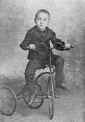 Last year in Lisbon Fernando Pessoa tricycle, 1894.